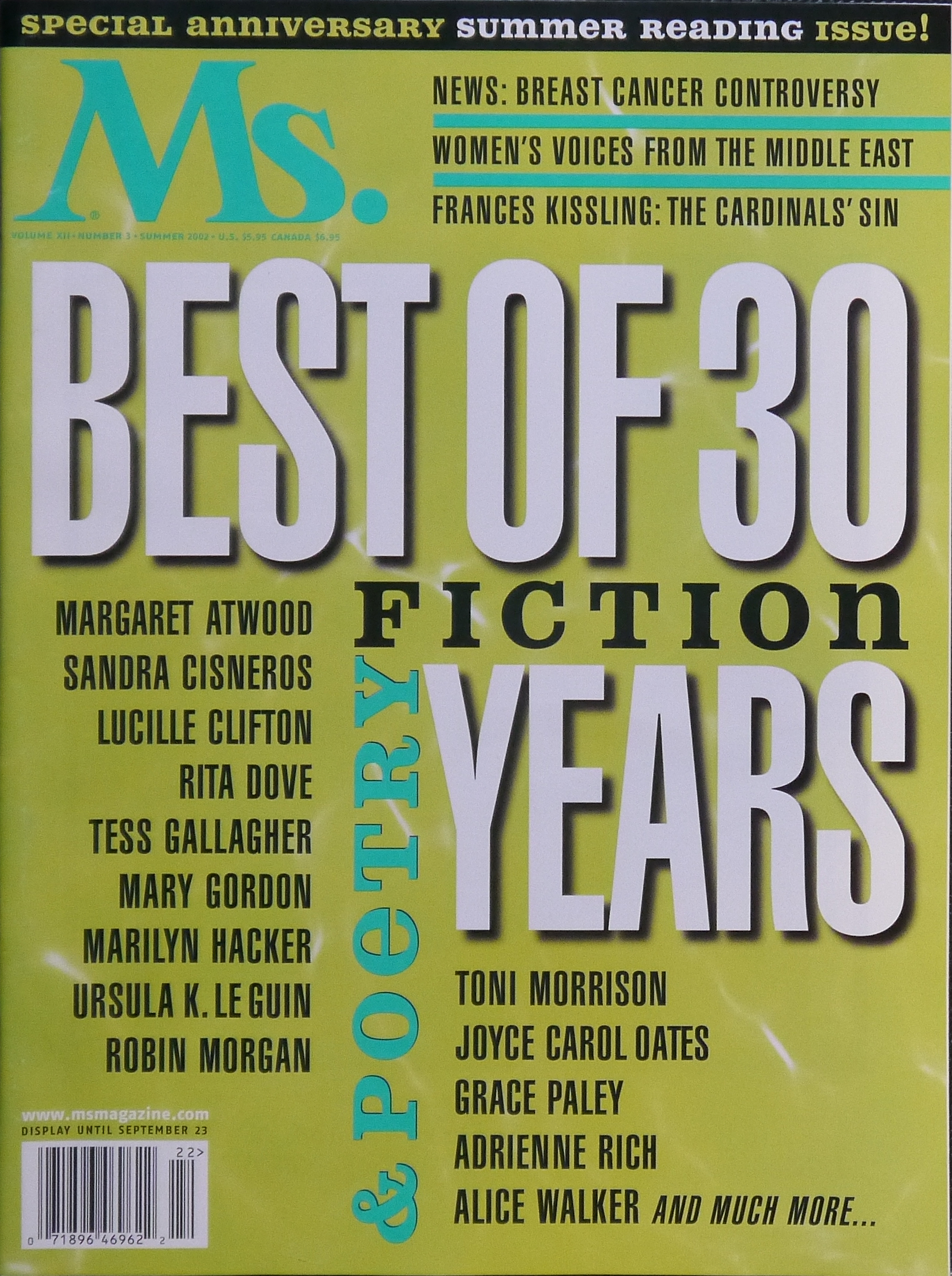 Ms. magazine, Summer 2002